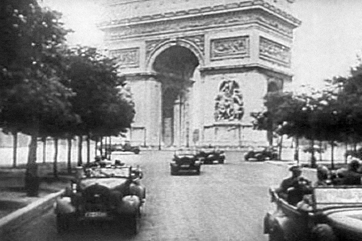 German Nazi officers parading in the deserted Foch avenue, Paris, France (1940). Screenshot taken from the 1943 United States Army propaganda film Divide and Conquer (Why We Fight #3) directed by Frank Capra and partially based on, news archives, animations, restaged scenes and captured propaganda material from both sides.